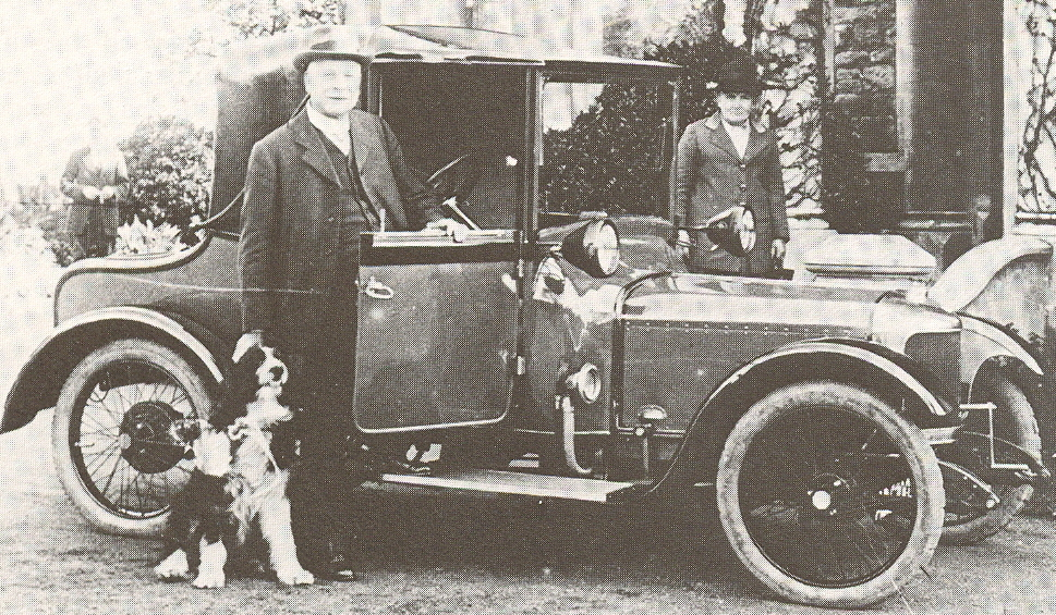 1919 Douglas cyclecar